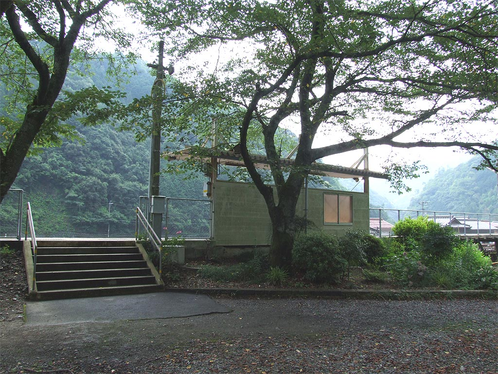 Mukuno Station. Nishikigawa-Railway Nishikigawa-Seiryu Line